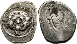 Etruria, Populonia. Circa 425 BC. AR 10 Asses or Litrae (8.19 g). Gorgoneion; X below Blank. Toned, nice VF, struck with worn obverse die. Rare first gorgoneion issue. Ex Martina de Behague Collection (Sotheby's, Monaco, 12 May 1987), lot 143 (part of). Recent find evidence for this issue in the Golasecca phase III A 2 stratum of the Prestino excavation suggests a date in the second half of the fifth century down to about 400, (Studi Etruschi 50, 1982, pp. 506-9 in Soprintendenza alle Antichita della Lombardia; De Marinis "Como", and "Prestino, Via Isonzo, Como tra celti ed etruschi", Società Archaeologica Comense, 1986, pp. 113-120). The late fifth century is also confirmed by the subsequent find of a rare 5 Asses piece (Vecchi II, 9-10) in the excavation of the early fourth century Etruscan sanctuary of Gravisca, (P. Visonà, "Gravisca e Puna della Vipera: Le monete", Quaderni Ticinesi 22, 1993, 44, 1, pl. 1, 1 and 1a). The weight standard of this issue is based upon the Corinthian stater (= Attic didrachm) of about 8.6 gm., divided into ten units on the same weight standard as the Sicilian litra.